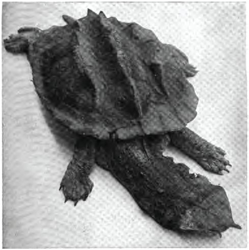 Photograph of the Mata mata turtle taken circa 1911